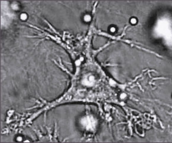 A screen clip from a video included in the journal article “Environmental Dimensionality Controls the Interaction of Phagocytes with the Pathogenic Fungi Aspergillus fumigatus and Candida albicans” A well resolved dendritic cell drags a conidium through a distance of up to 9 μm. The conidium, however, is not phagocytosed by the cell.